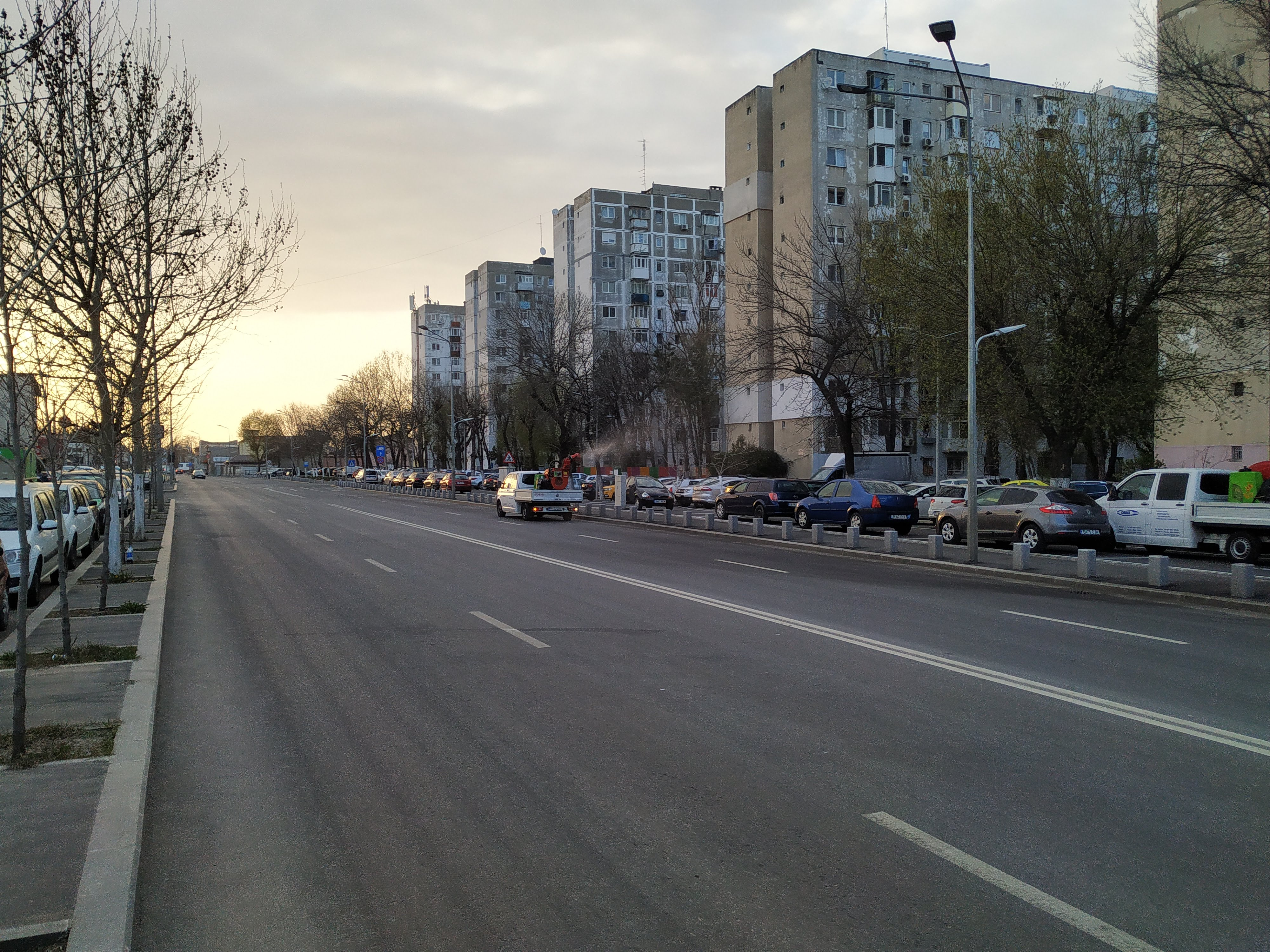 Empty street in Bucharest, Romania during coronavirus pandemic lockdown